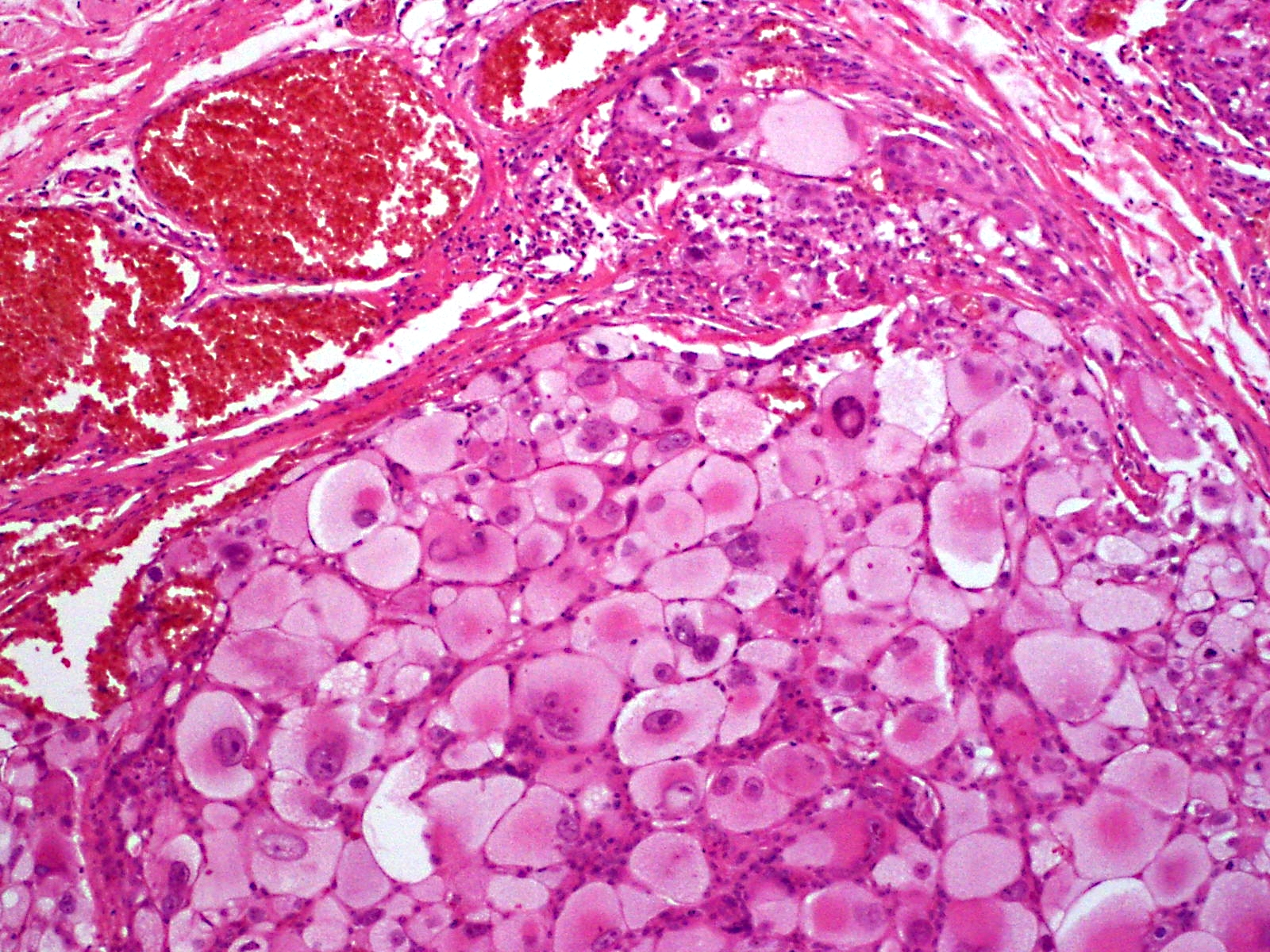 Pleomorphic liposarcoma